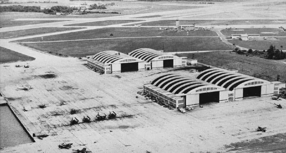 Aerial view of the hangar area of the Naval Air Station Patuxent River, Maryland, USA, about late 1940s.